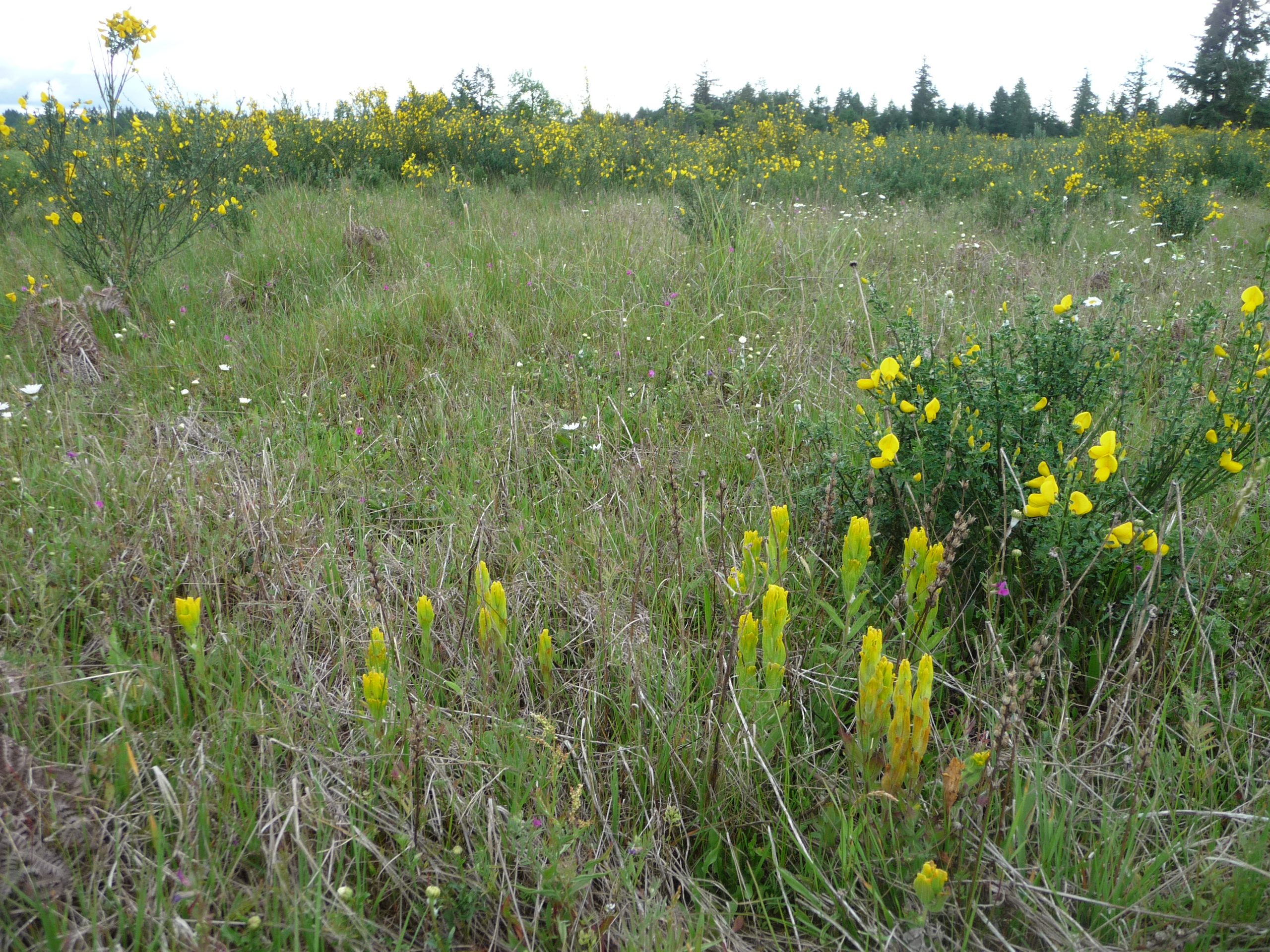 Castilleja levisecta (golden paintbrush) at Rocky Prairie, Thurston County, Washington, United States of America